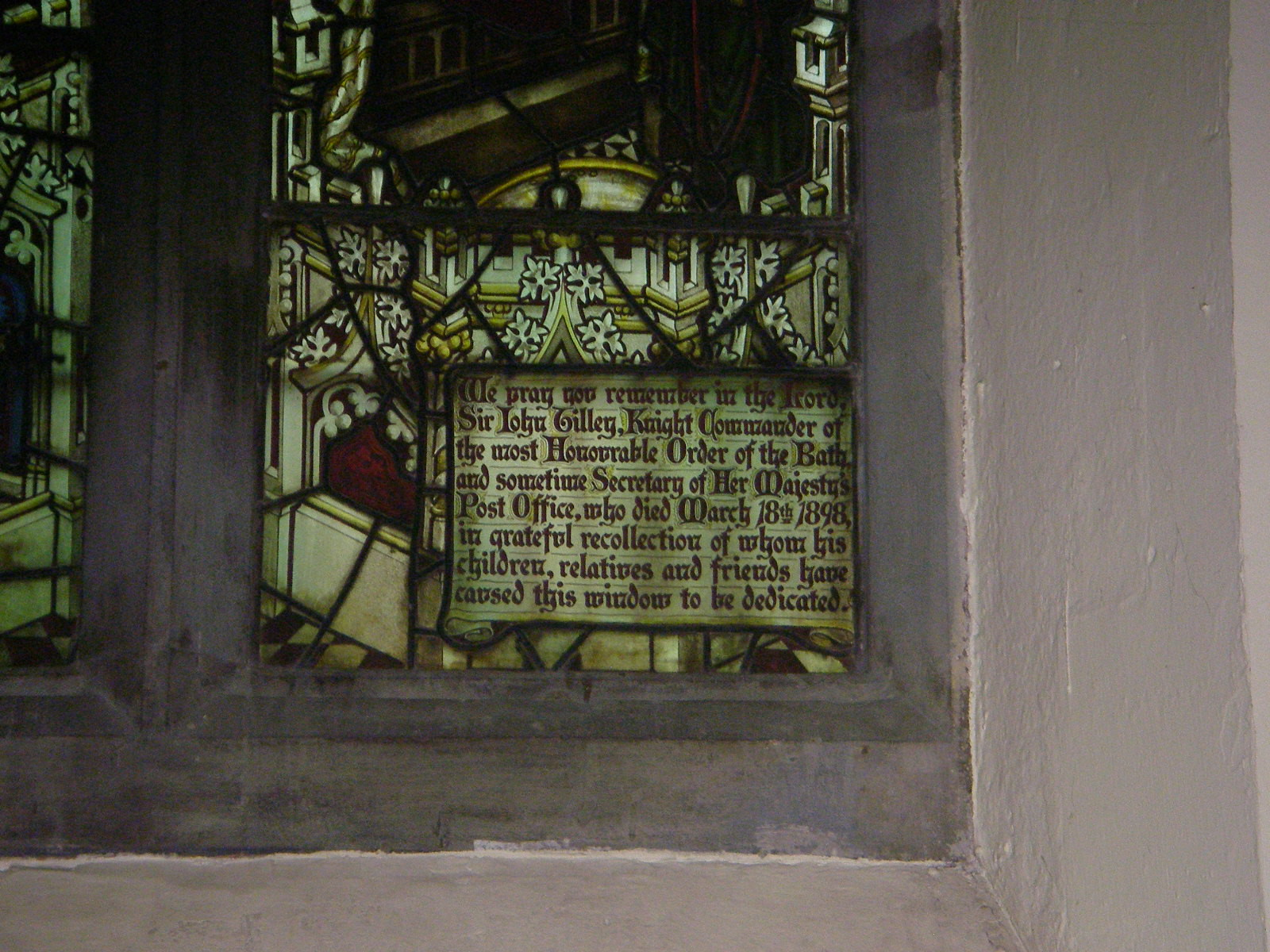 Bottom right hand corner of the window dedicated on December 18th 1898 to Sir John Tilley KCB. Located in St Saviour, Pimlico, London.